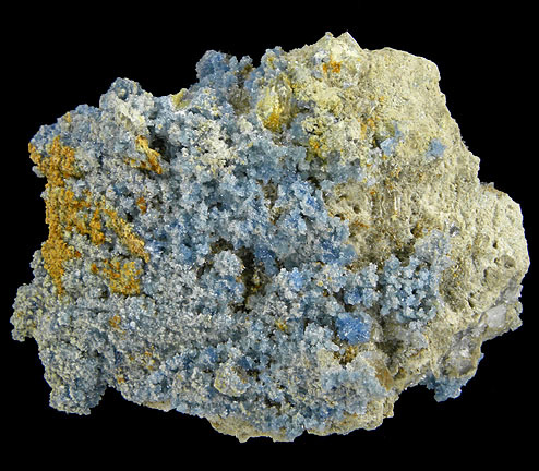 Vauxite, Paravauxite, Metavauxite Locality: Siglo Veinte Mine (Siglo XX Mine; Llallagua Mine; Catavi), Llallagua, Rafael Bustillo Province, Potosí Department, Bolivia (Locality at ) Size: 6.8 x 5.0 x 3.3 cm. From the find of 2006, this is one of the most significant discoveries ever made at this locality. Not since the days of World War II has there been such a remarkable find of this material. These are some of the largest overall Vauxite specimens in the world, but the greatest aspect of these pieces is two-fold. First, the Vauxite itself is associated with micro fibrous "strands" of the super rare phosphate Metavauxite, plus tabular micro crystals of Paravauxite and small whitish spheres of Wavellite. It is incredibly rare to have four individual phosphate species all on one specimen, and the fact that this mine is the type locality for Vauxite, Paravauxite and Metavauxite is even better. There are also some small Quartz crystals on most of the specimens found as well. The second significant attribute of these specimens is the fact that they formed on a solid Quartz-Diorite porphyry matrix, and not crumbly clay (after Allophane). This particular piece is a remarkable, very well crystallized, very rare specimen consisting of small, bladed, beautiful blue color, radiating aggregates of Vauxite associated with micro fibrous strands of colorless Metavauxite, along with micro tabular blades of Paravauxite and small whitish spheres of Wavellite plus a few scattered Quartz crystals on firm Quartz-Diorite porphyry matrix. This piece is from the type locality for Vauxite, Paravauxite and Metavauxite which was discovered along the Contacto and San Jose veins in this mine and was first described by Sam Gordon and Mark Bandy. It is unbelievably rare to find good size matrix specimens of Vauxite from Bolivia with Paravauxite and Metavauxite.